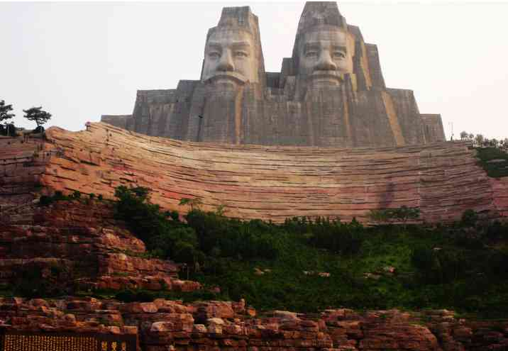 yan and huang in zhengzhou